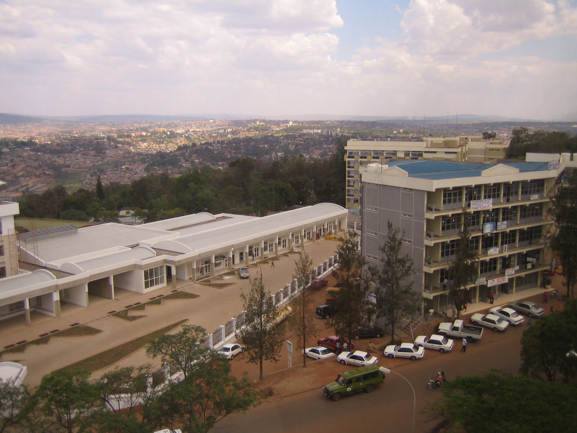 View of Kigali, Rwanda taken by Steve Holt (SteveRwanda using Canon digital camera. The big building in the foreground is the new supermarket complex being built. In the distance, the Amahoro national stadium is visible.